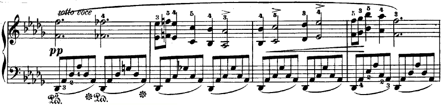 Second theme from Chopin's Nocturne Op 9, No 1